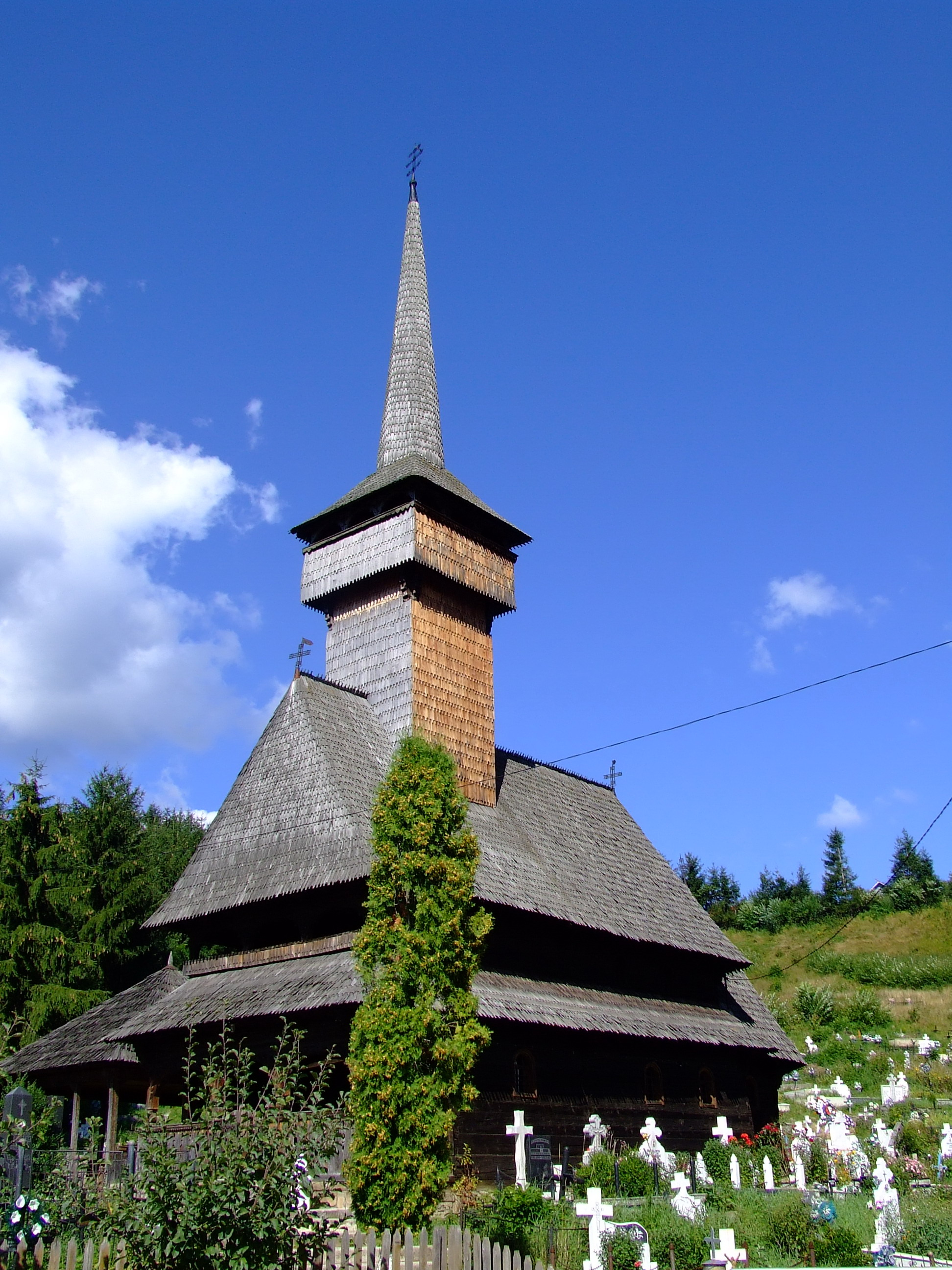 wooden church in Borșa, Maramureș